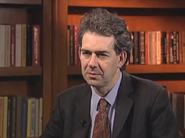 Thomas de Waal